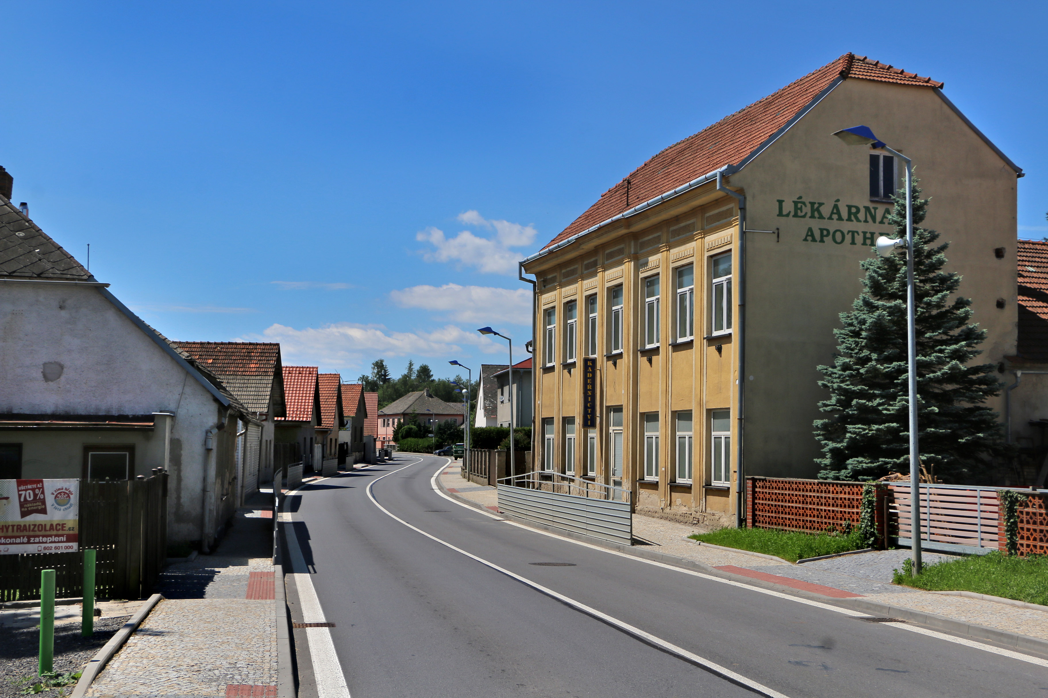 House No 29 in Stonařov, Czech Republic.